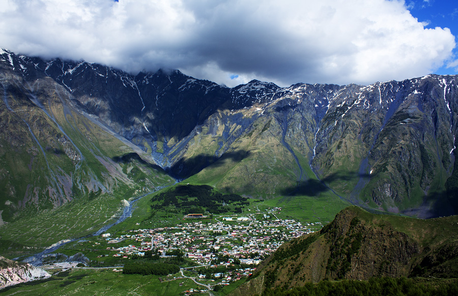 Khevi, Georgia — Mountainous Town Stepantsminda